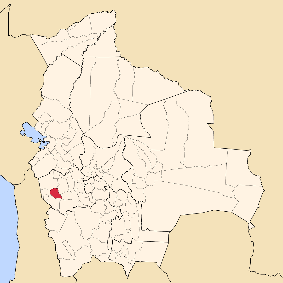 Map of Bolivia showing Litoral province, Oruro